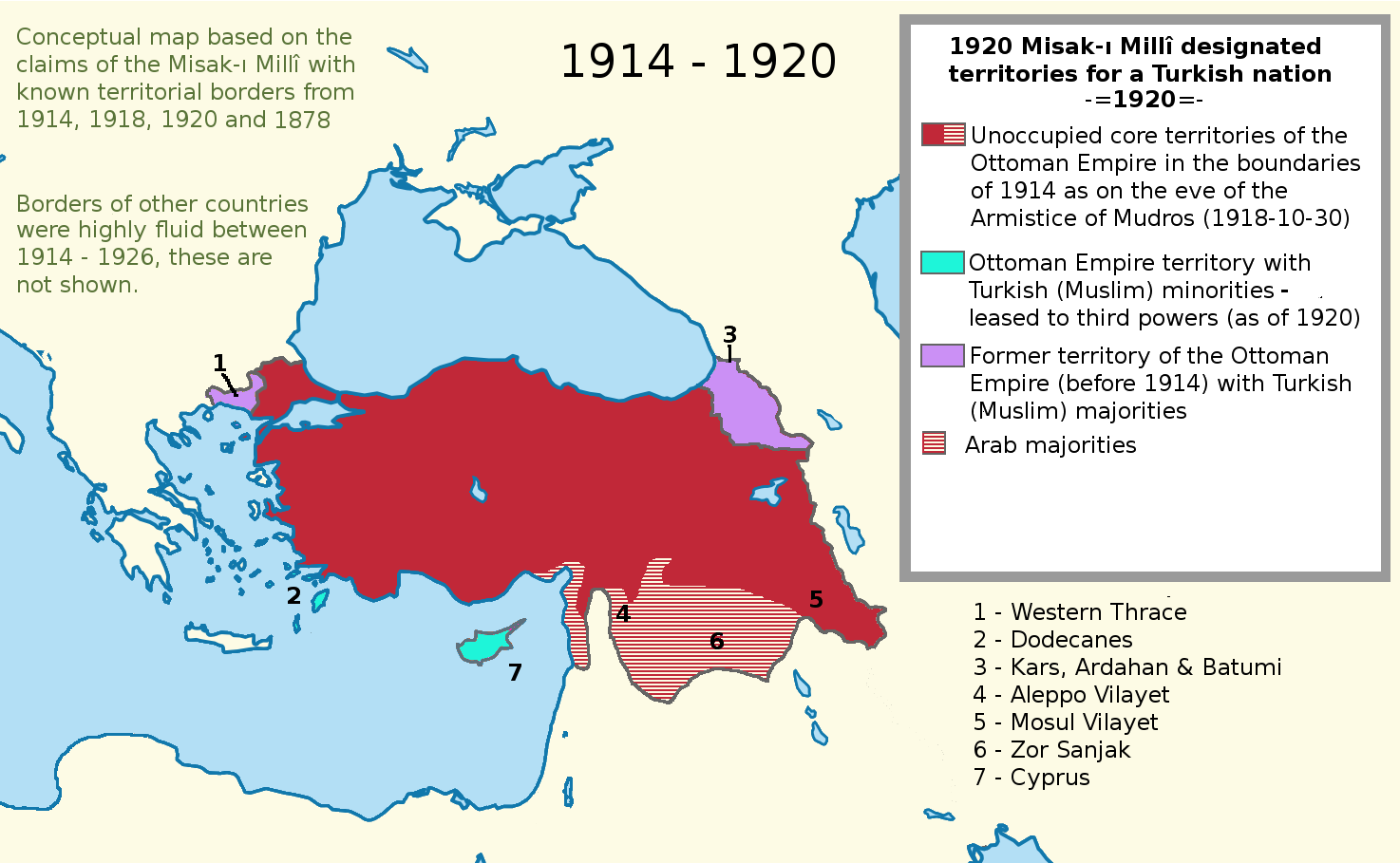 I worked more on the proposal map and I also added the current territories. This map shows the goal of the Turkish side. I used a Wikipedia map while I was working on this project. It is called "LocationTurkey2". --Please help me erasing the older one (Misak-ı_milli.PNG)